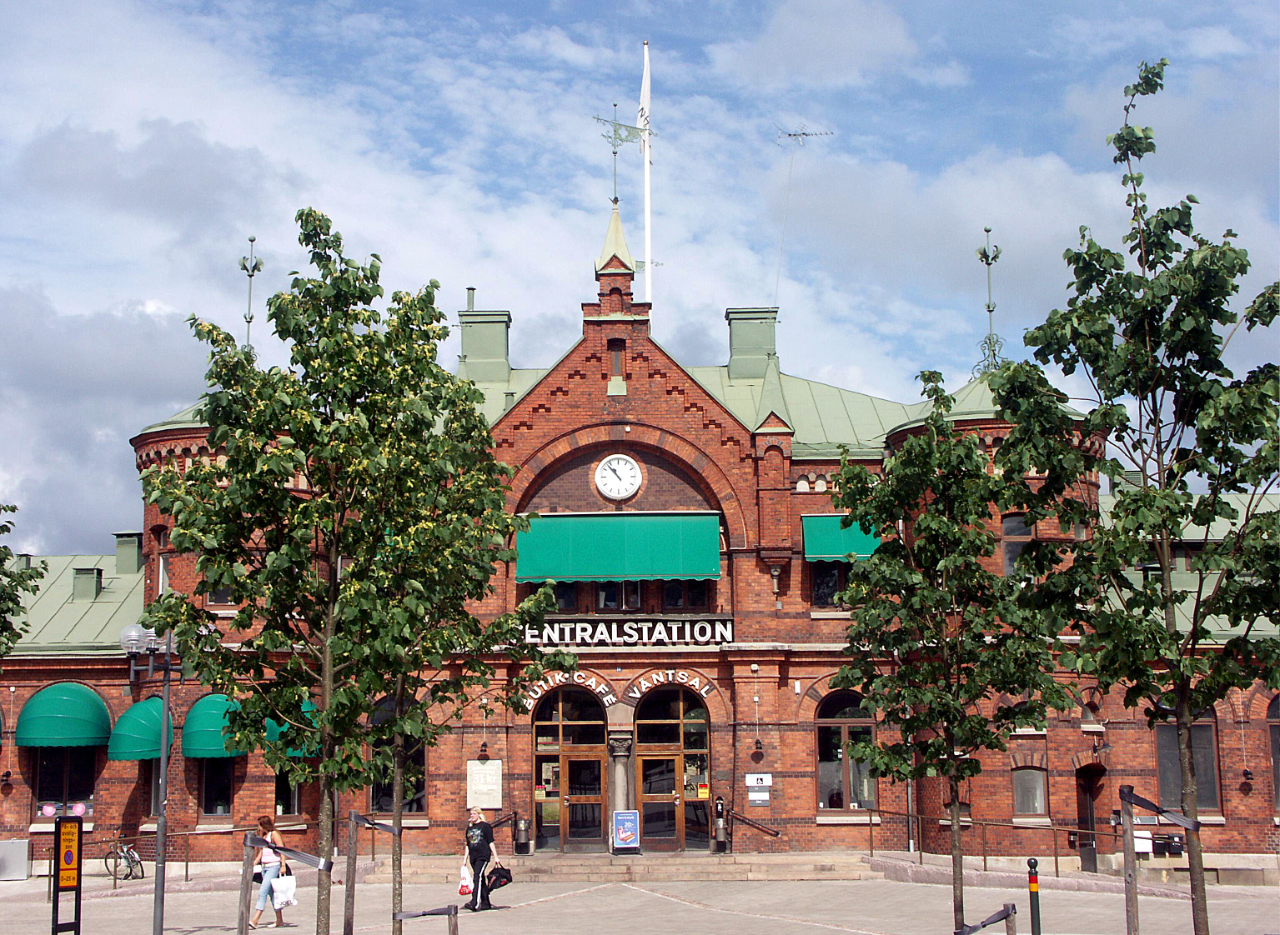 This is the railway station of the Swedish town Borås.